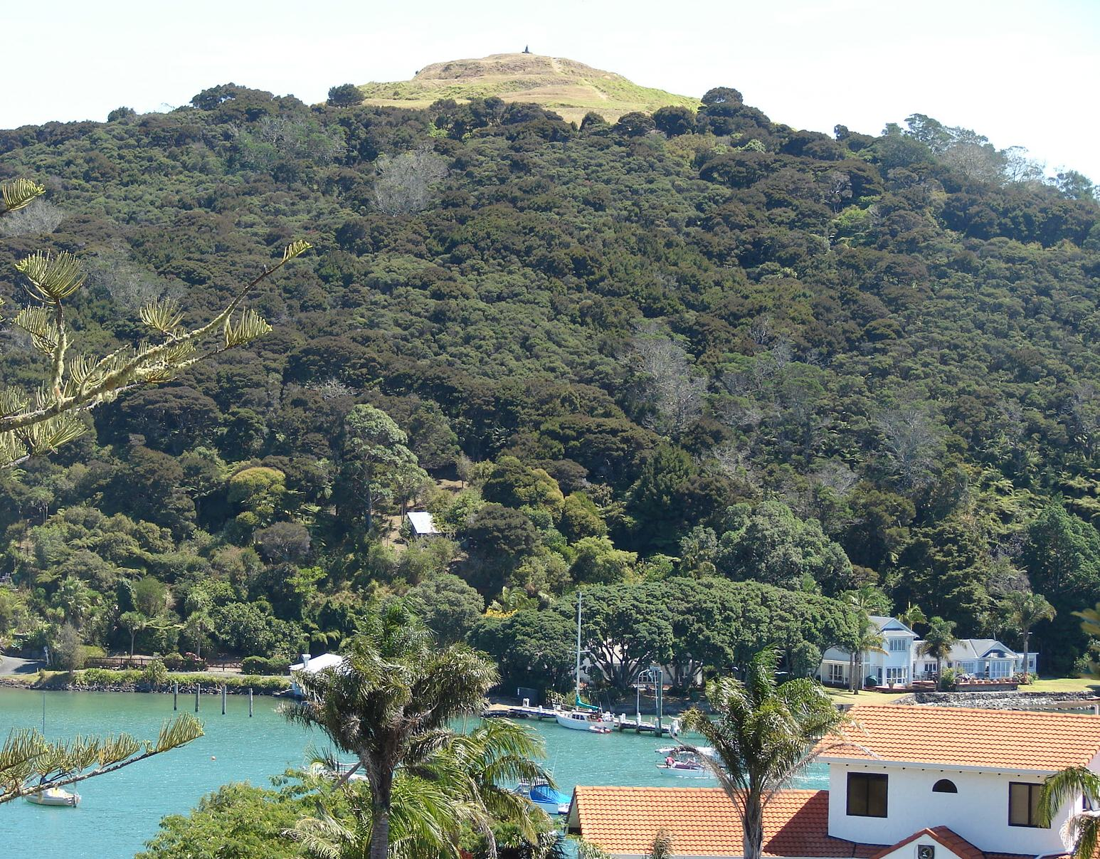 Rangikapiti Pā above, Mangonui Yacht Club below. Seen from George Street.